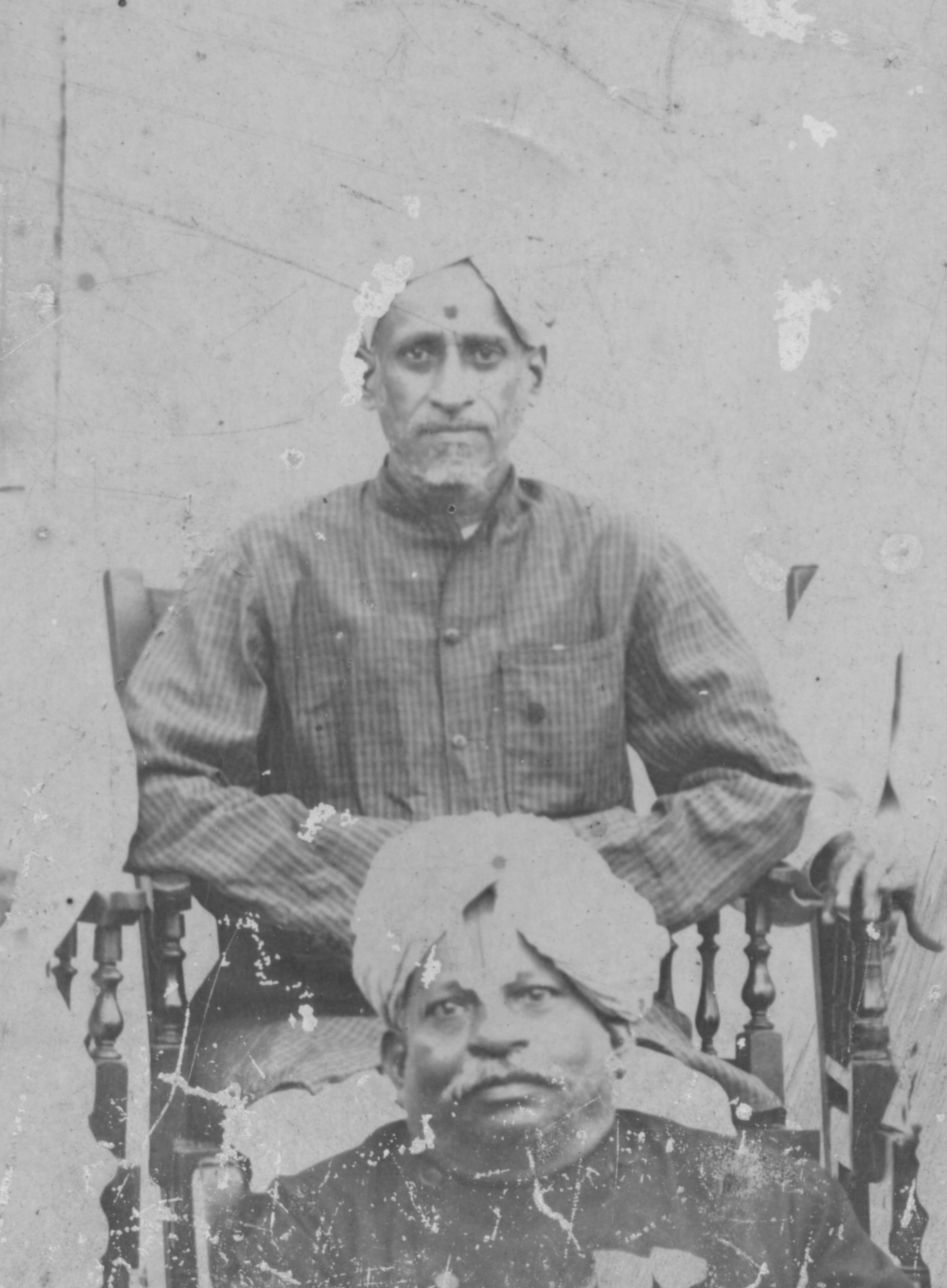 Bouloussou Soubramaniam Sastroulou and Kotha Zamindar.